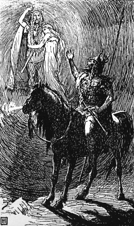 Hermod's Farewell to Baldur (the title in the book)